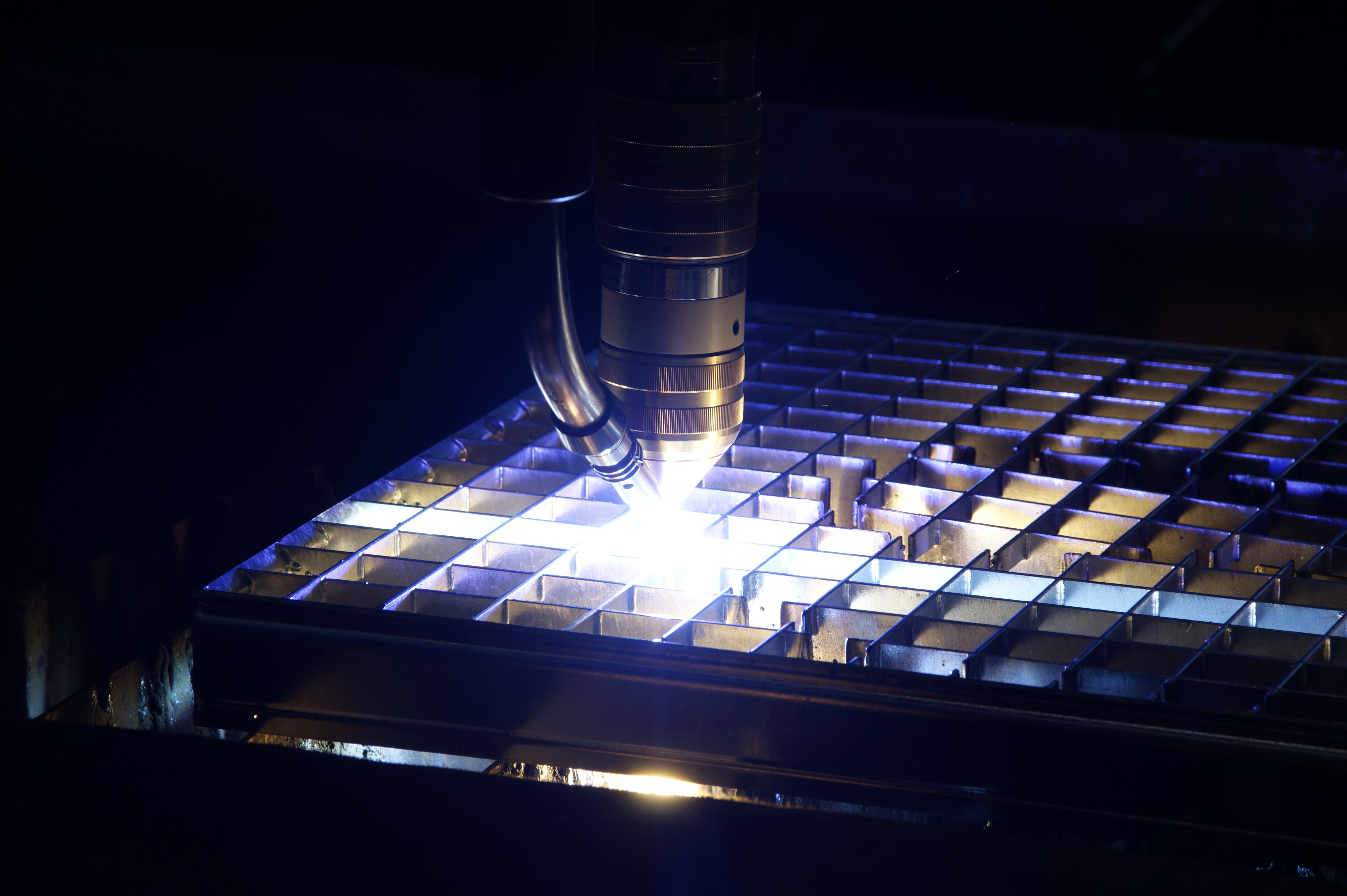 HotWire in operation